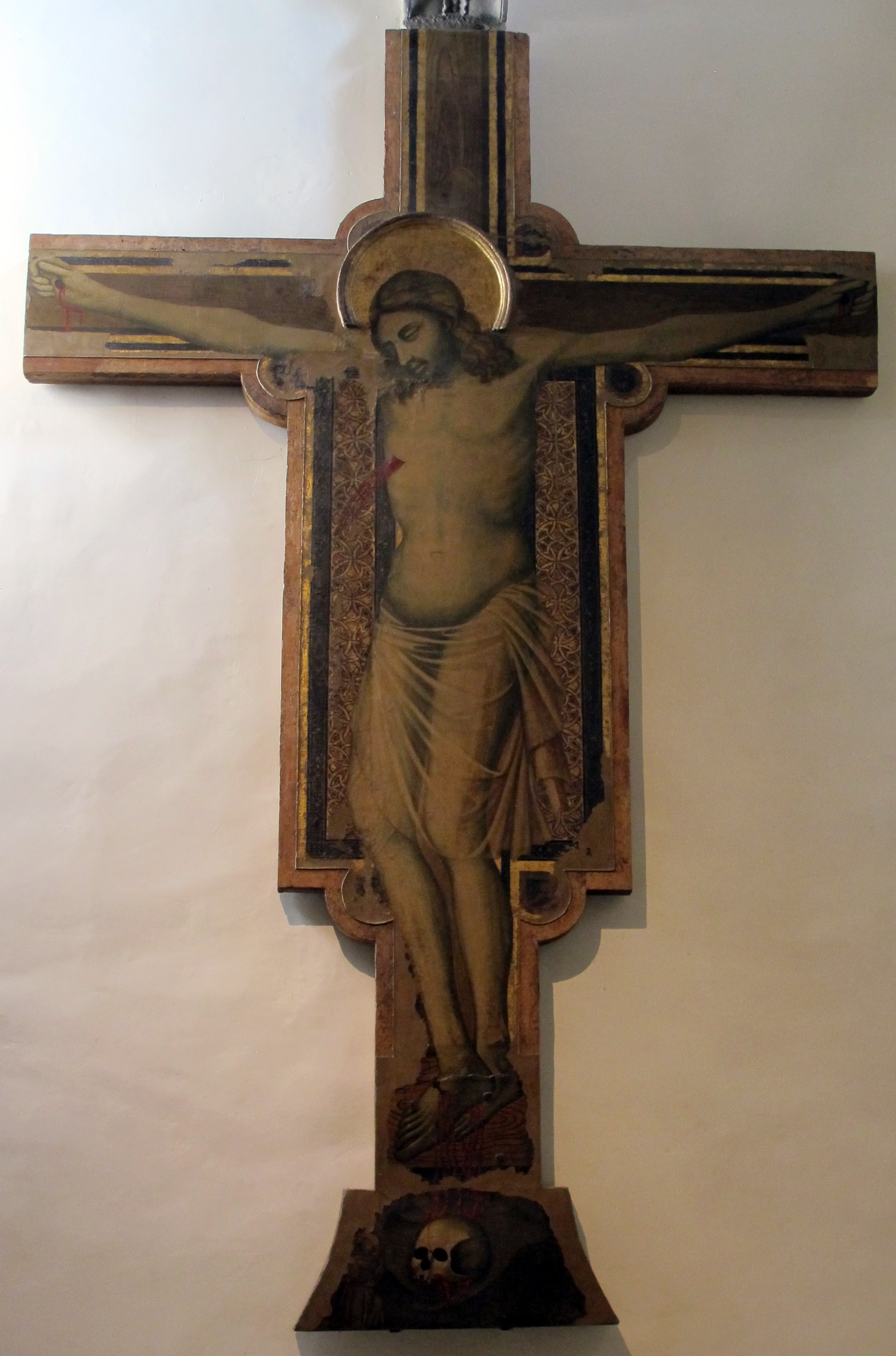 Santa Felicita (Florence) - Sacristy